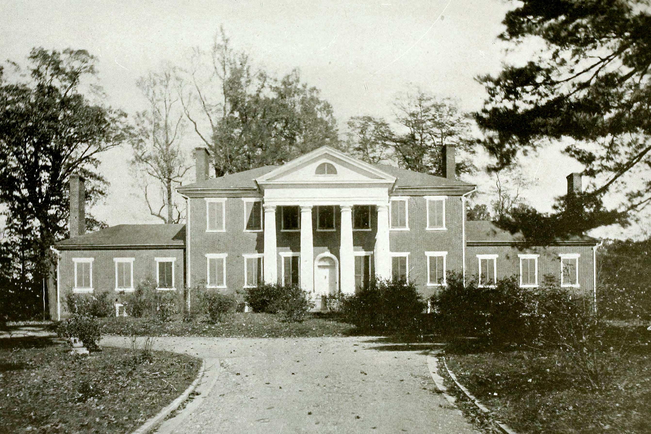 Photograph of "Estouteville" house in Virginia, ca. 1919. From Brick Architecture of the Colonial Period in Maryland & Virginia (1919) by Lewis A. Coffin Jr. & Arthur C. Holden (New York: Architectural Book Publishing Co.) Digital copy available at the Internet Archive. (photograph cropped, rotated, and level adjusted)